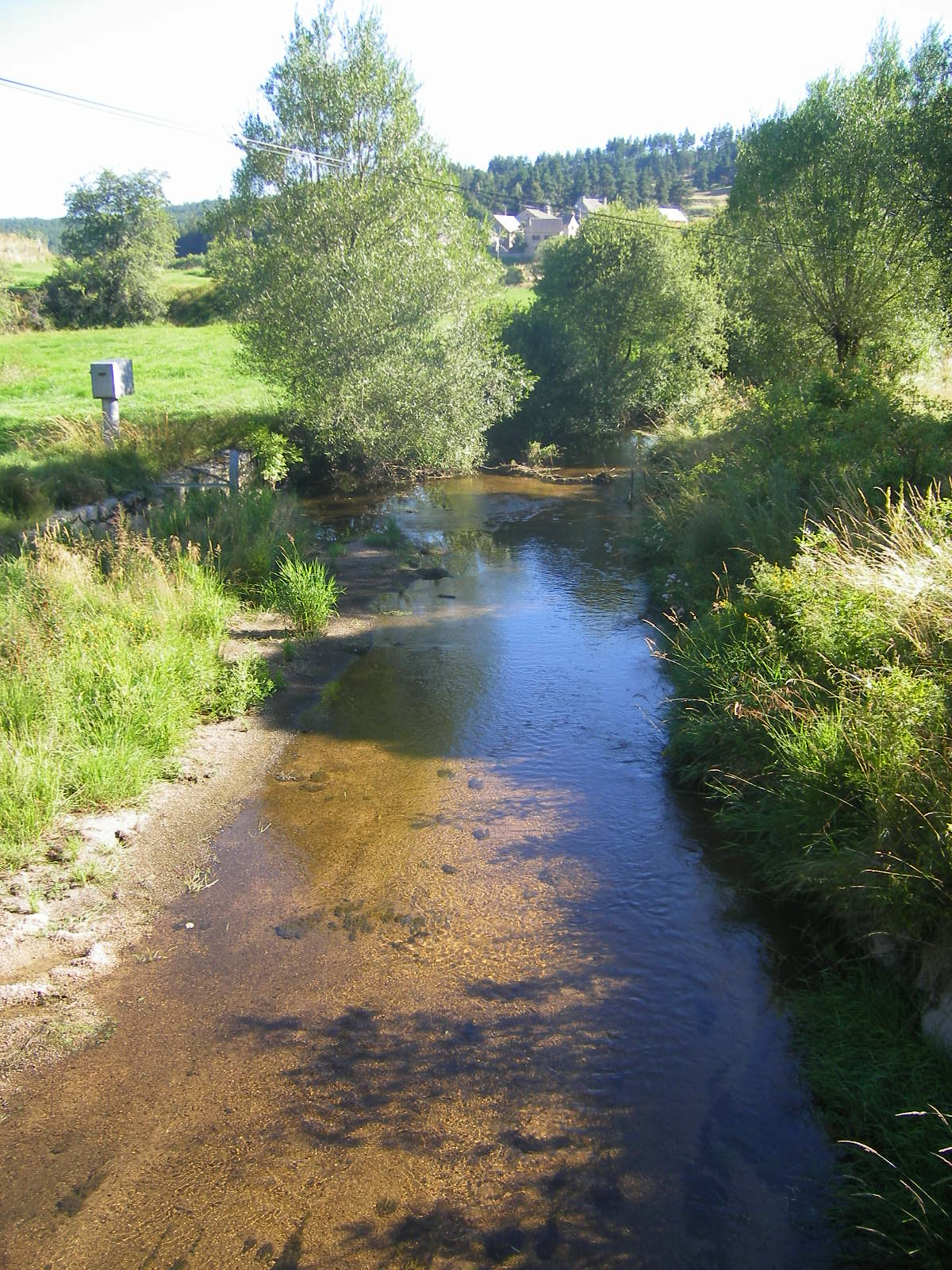 Javols, the Triboulin stream